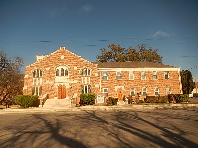 I took photo of First Baptist Church in Ozona, TX, with Nikon camera.